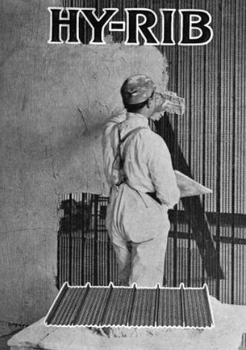 Hy-Rib Handbook 1909 cover page